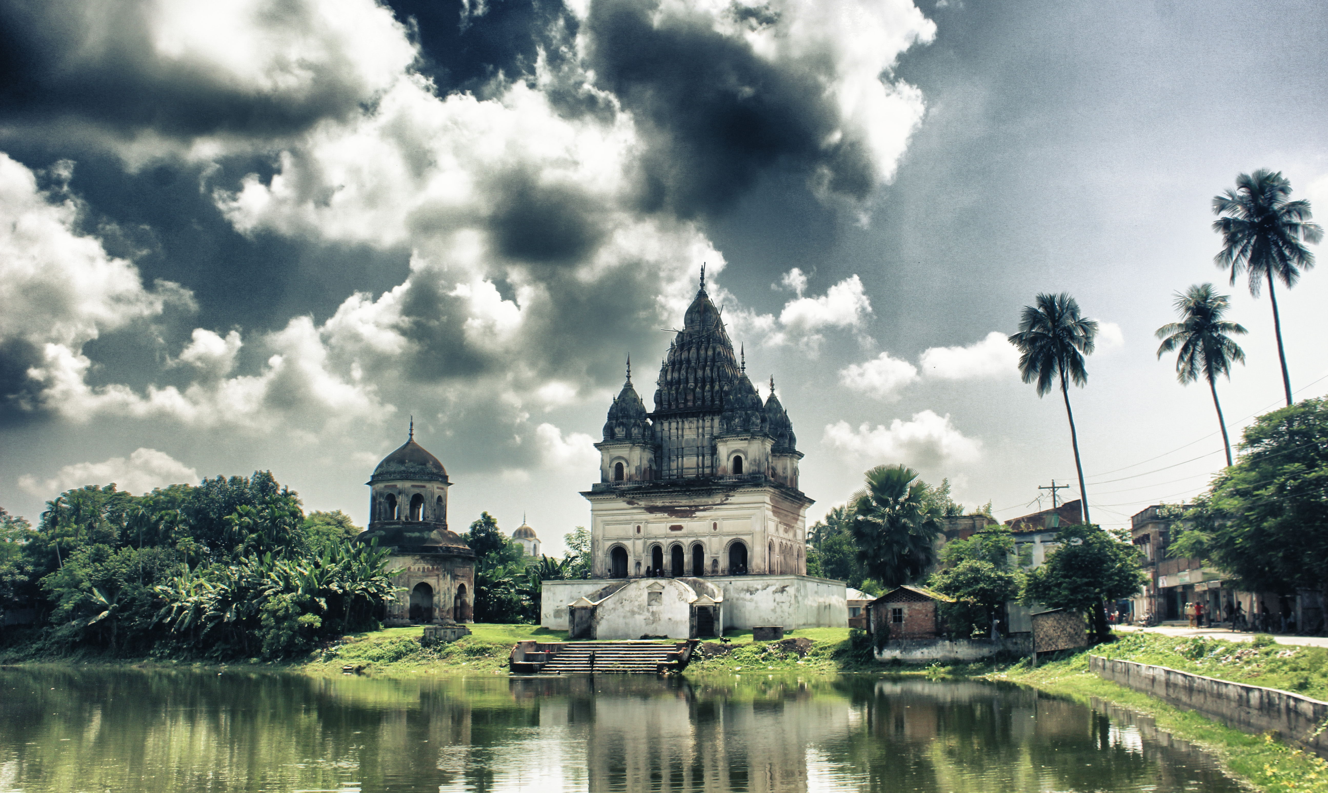 This temple situated in Puthia Bazar of Rajshahi District. It was built on a hing plinth on the southern bank of a large tank. The temple is a 19.81 meter square building and total height is 35.03 meter. It is a Pancha Ratna type building consists of a Garbhagriha and a surrounding verandah. Rani Bhubanmoye Debi built this temple in 1823 AD.